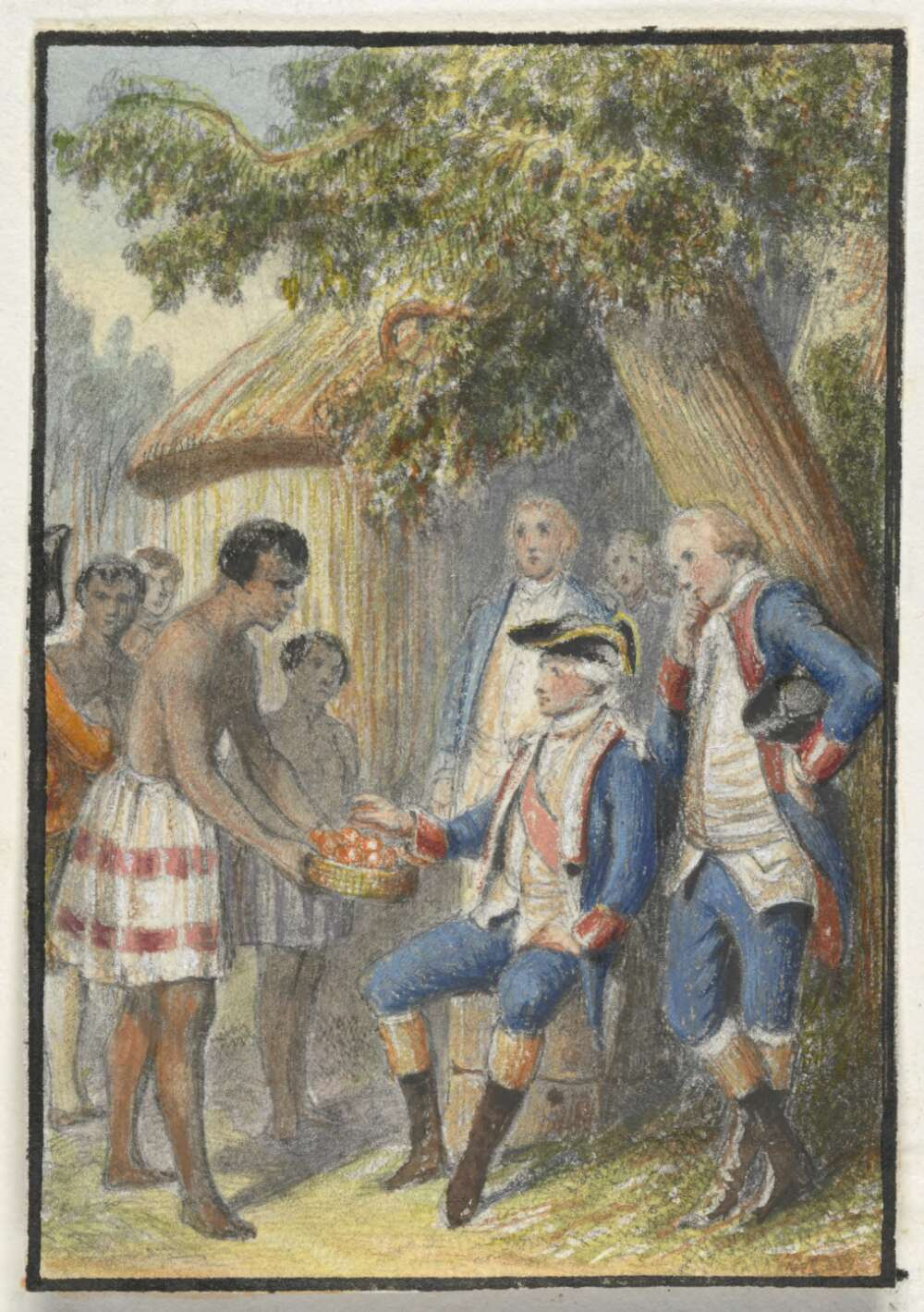 Tahitians Presenting Fruits to Bougainville Attended by His Officers by an unknown artist.